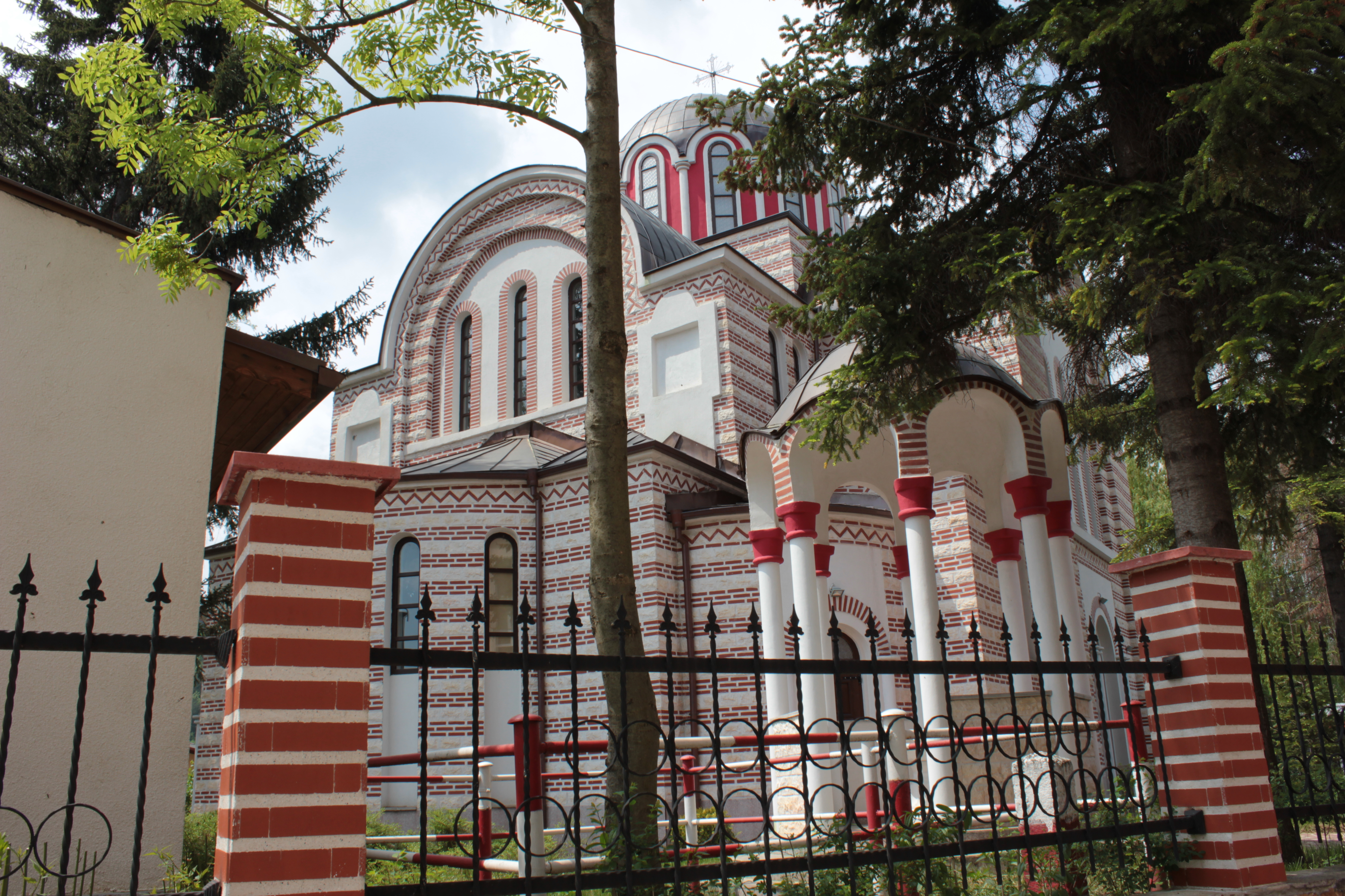 Saint George renovated Orthodox Church in Breznik